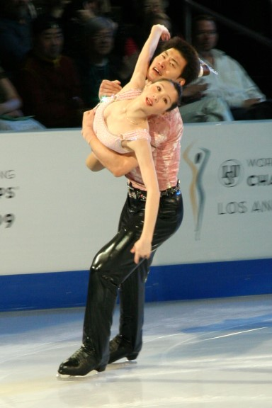 Zhang Dan and Zhang Hao at the the 2009 World Championships (gala).